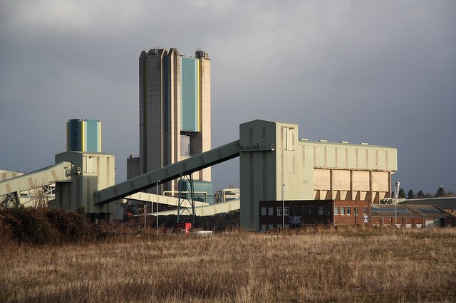 Harworth Colliery Mothballed by UK Coal in 2006, Harworth Pit could be resurrected as coal prices soar, making it economically viable again